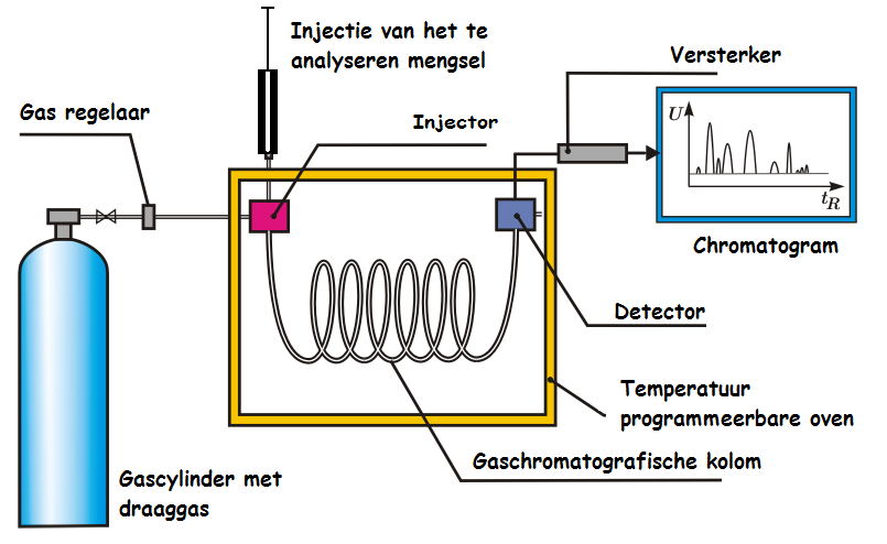 Based on Image:SchemaGC.png , modified and translated